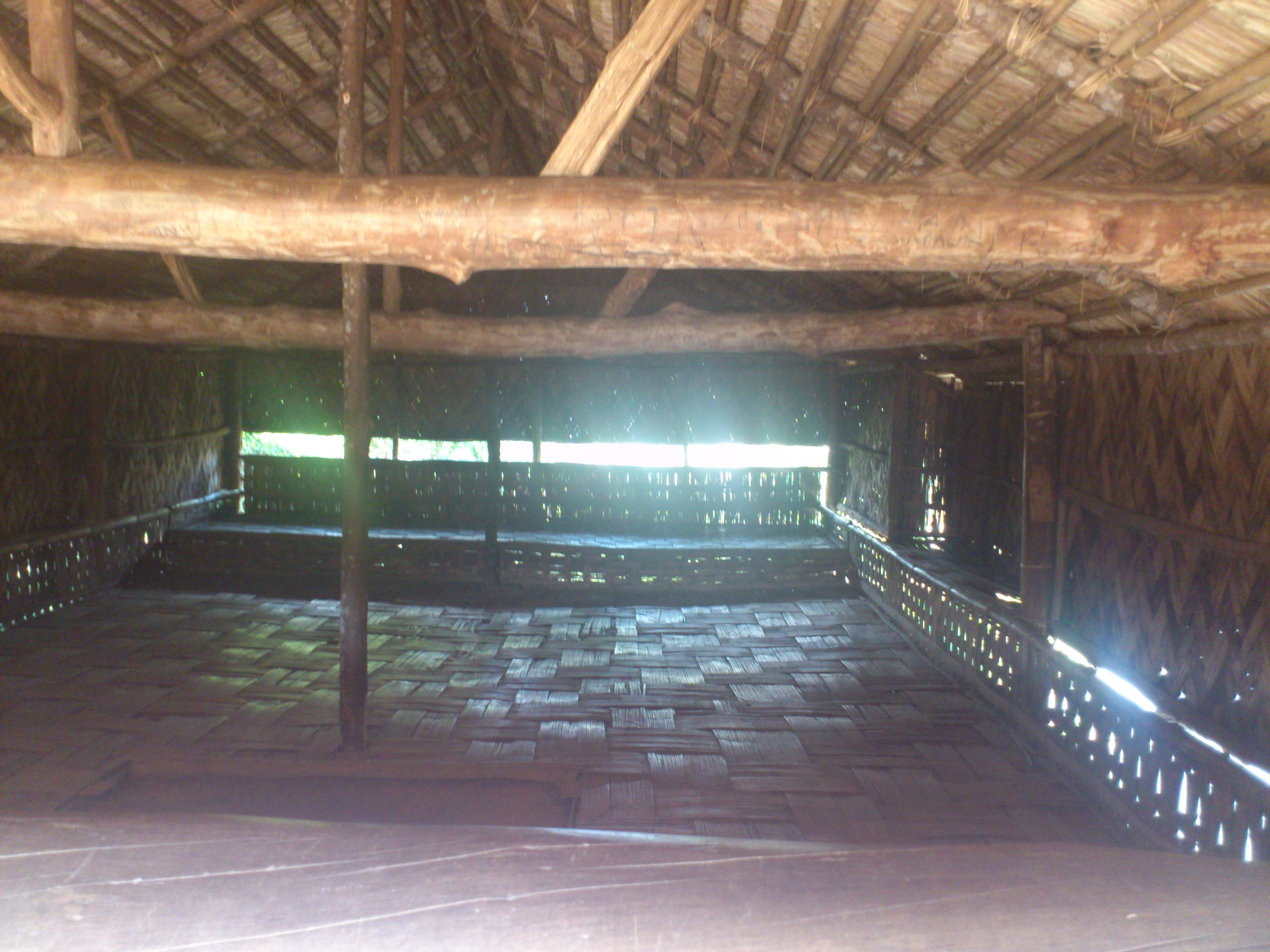 Interior of a reconstructed Zawlbuk